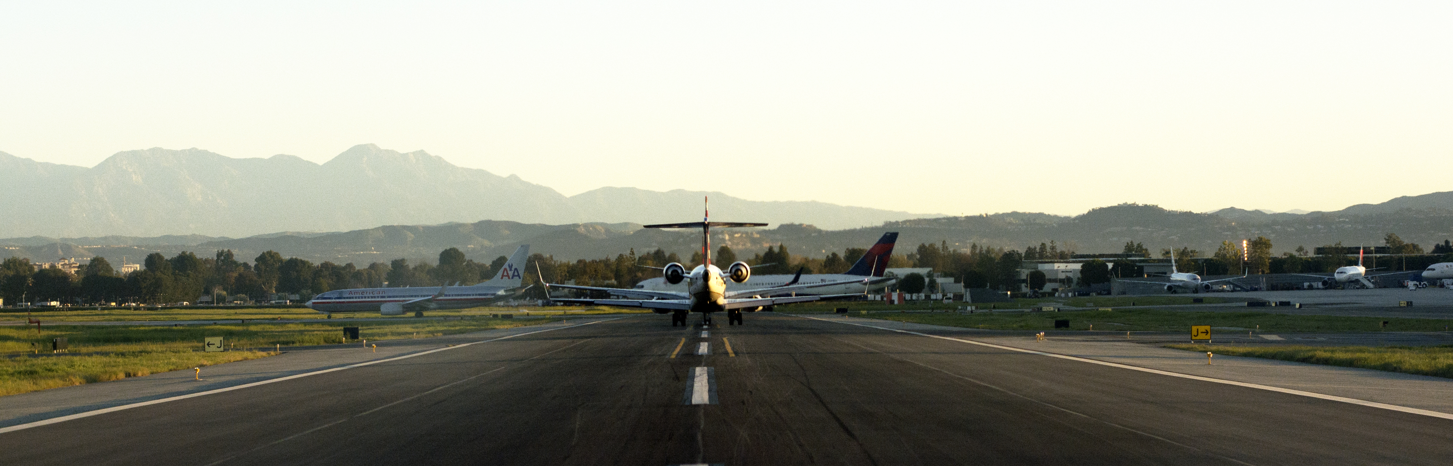 KSNA traffic at 7am photo D Ramey Logan